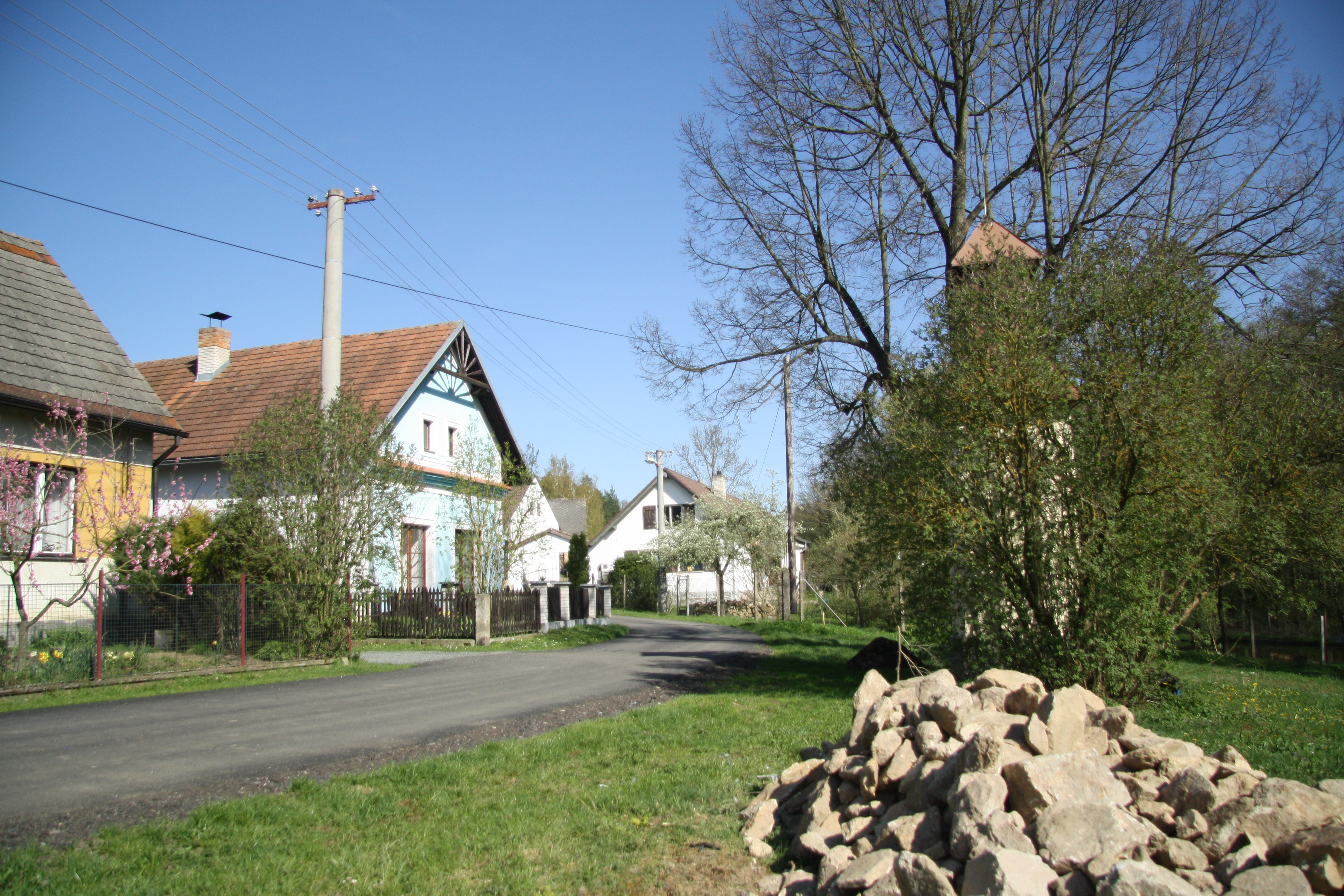 Center of Vitice, Želiv, Pelhřimov District.